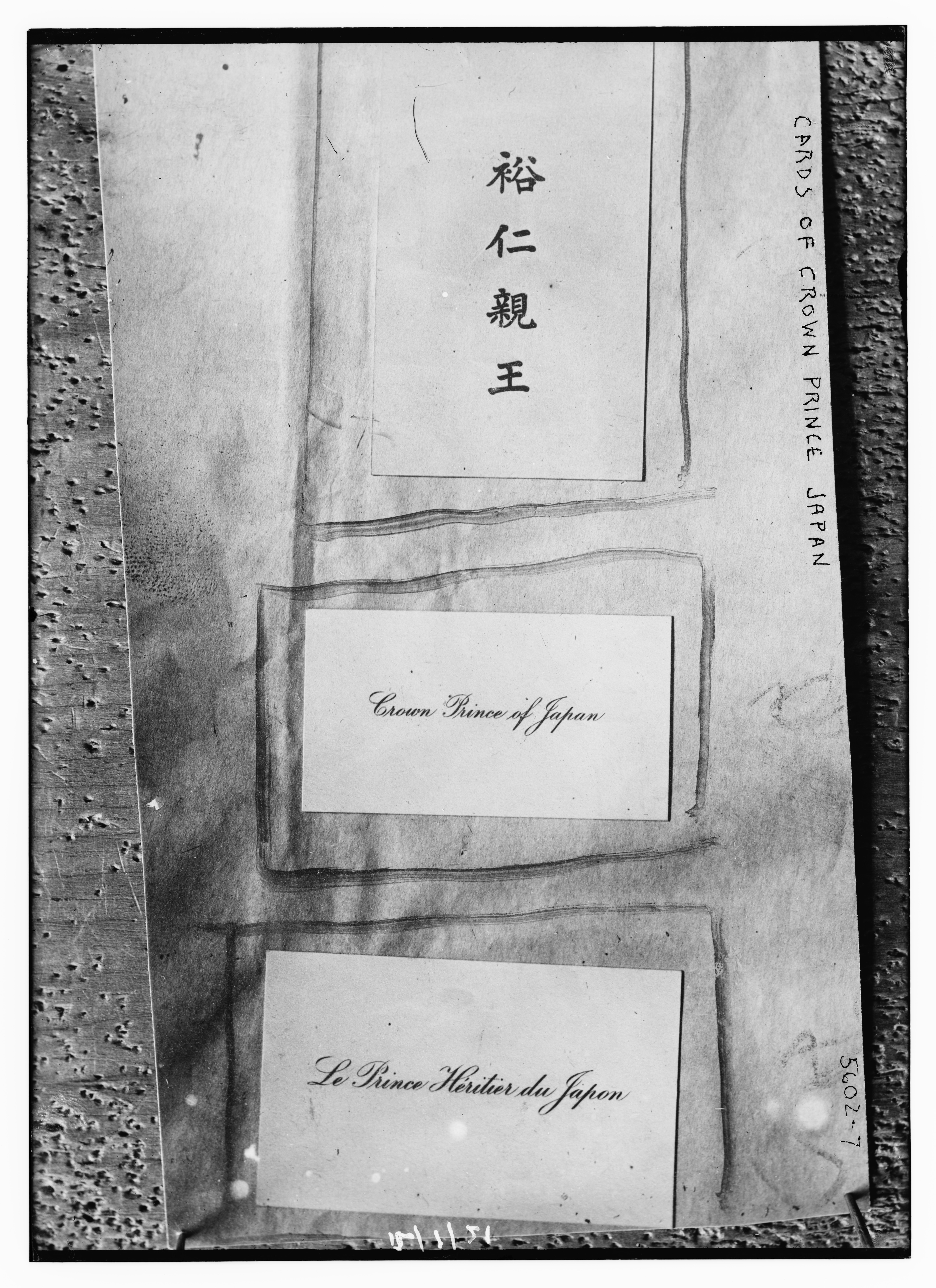 Title: Cards of Crown Prince, Japan Abstract/medium: 1 negative : glass ; 5 x 7 in. or smaller.